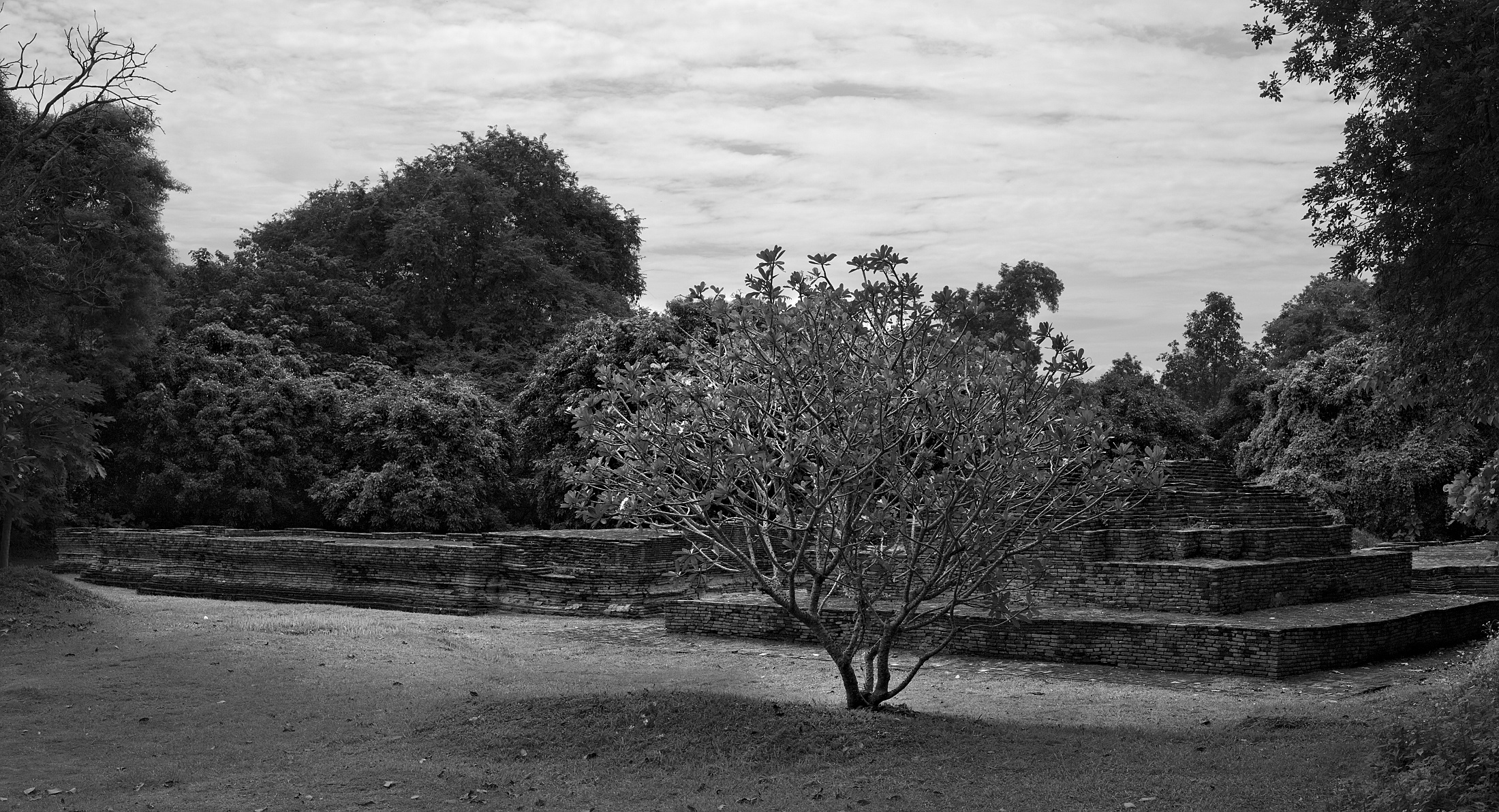 View of the ruins of the historic Wat Phaya Mangrai from the north (ie. from the direction of Wat Oong Dam). Part of the Wiang Kum Kam archaeological site south of Chiang Mai, Thailand.